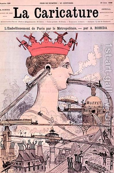 L’embellissement de Paris par le métropolitain (Improvement of Paris by the Metro), by Albert Robida, La Caricature, no 338